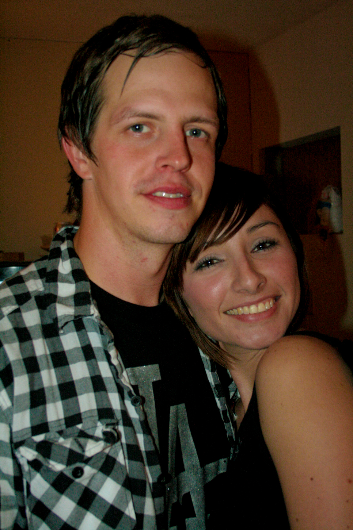 Randy & Belouxy Photo by Karh Villavicencio